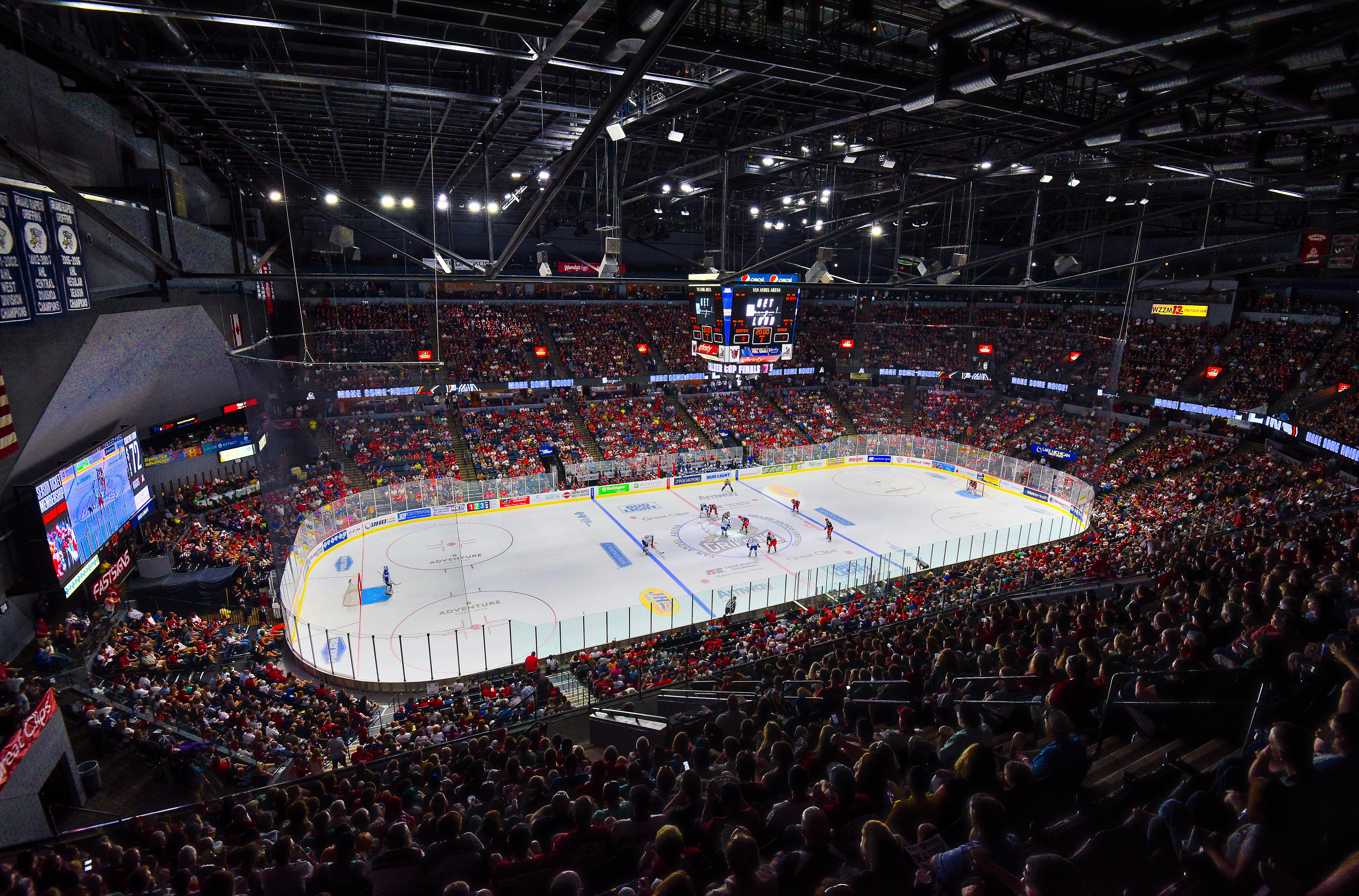 Photo: Scott Thomas